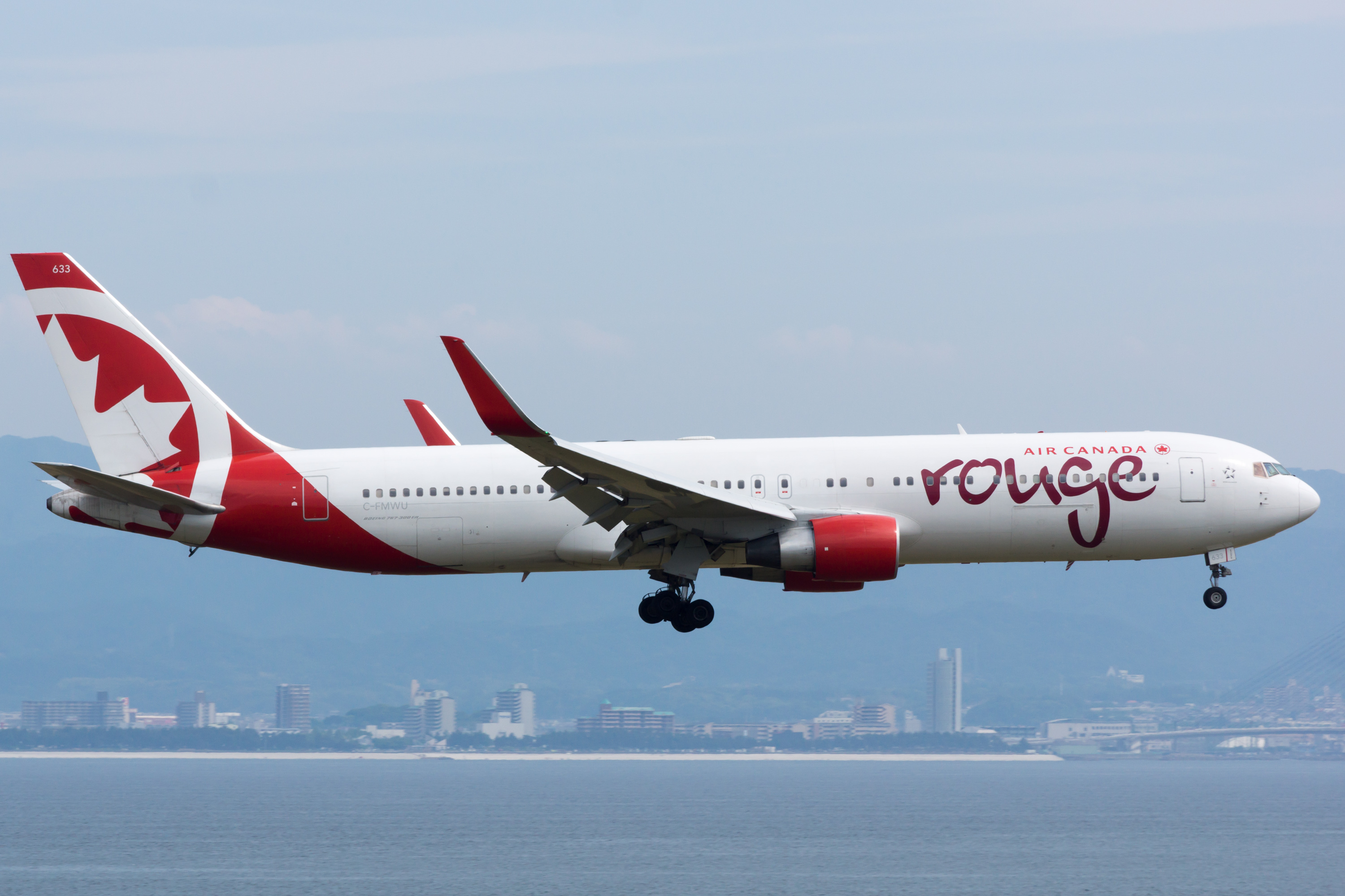 Air Canada Rouge / エア・カナダ・ルージュ Boeing 767-333(ER) C-FMWU AC1951, Arrived from Vancouver Osaka Kansai Int'l Airport